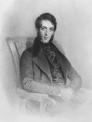 Lithograph of Martin William, first Chief Justice of New Zealand by J. Carpenter. Alexander Turnbull Library reference C-022-009